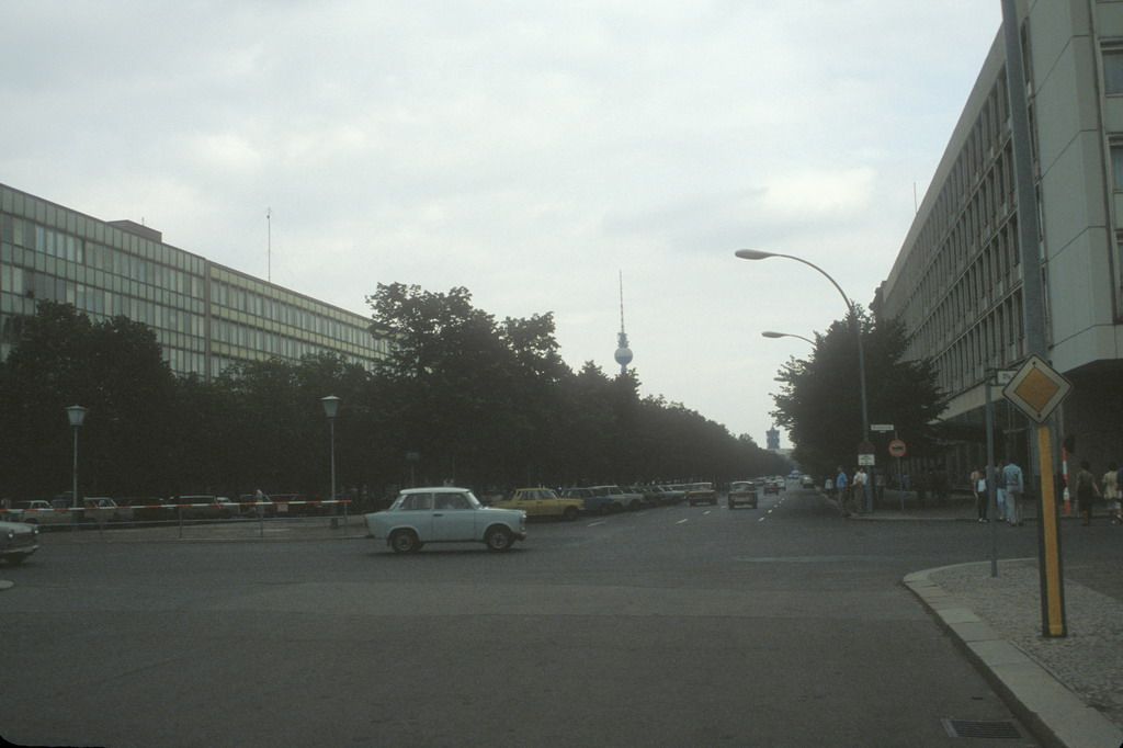 Freidrichstrasse and Unter den Linden